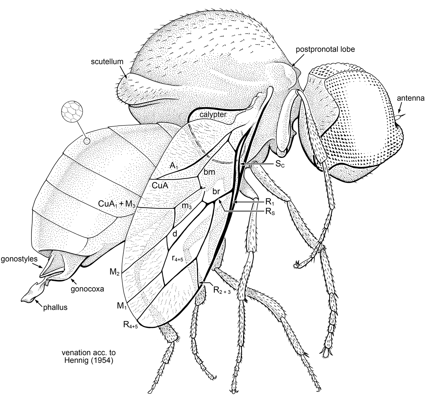 Schlingeromyia minuta Grimaldi & Hauser, (Acroceridae) in latest Albian – early Cenomanian amber from Myanmar. Holotype, AMNH Bu332a. Body length 3.0 mm. Terminology for wing venation after Hennig (1954).